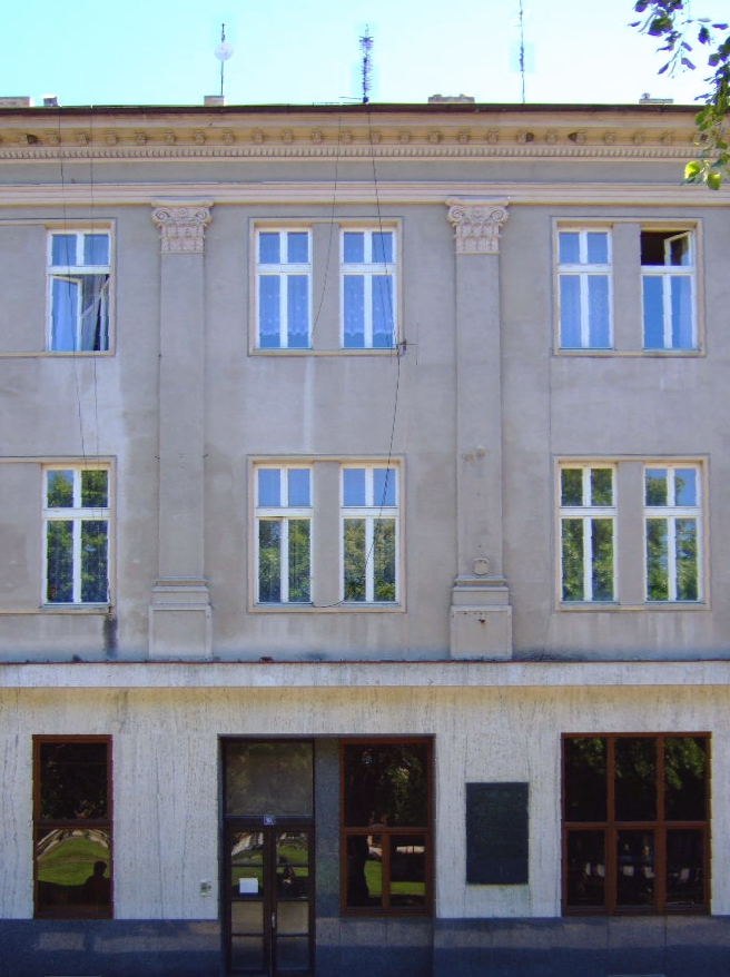 The house in soutern side of central square in Terezín where SS headquartes was located. Aufnahme: 1. Juli 2006 Url